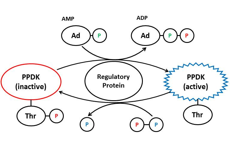 PPDK is regulated by PPDKRP, which phosphorylates and dephosphorylated a threonine residue.